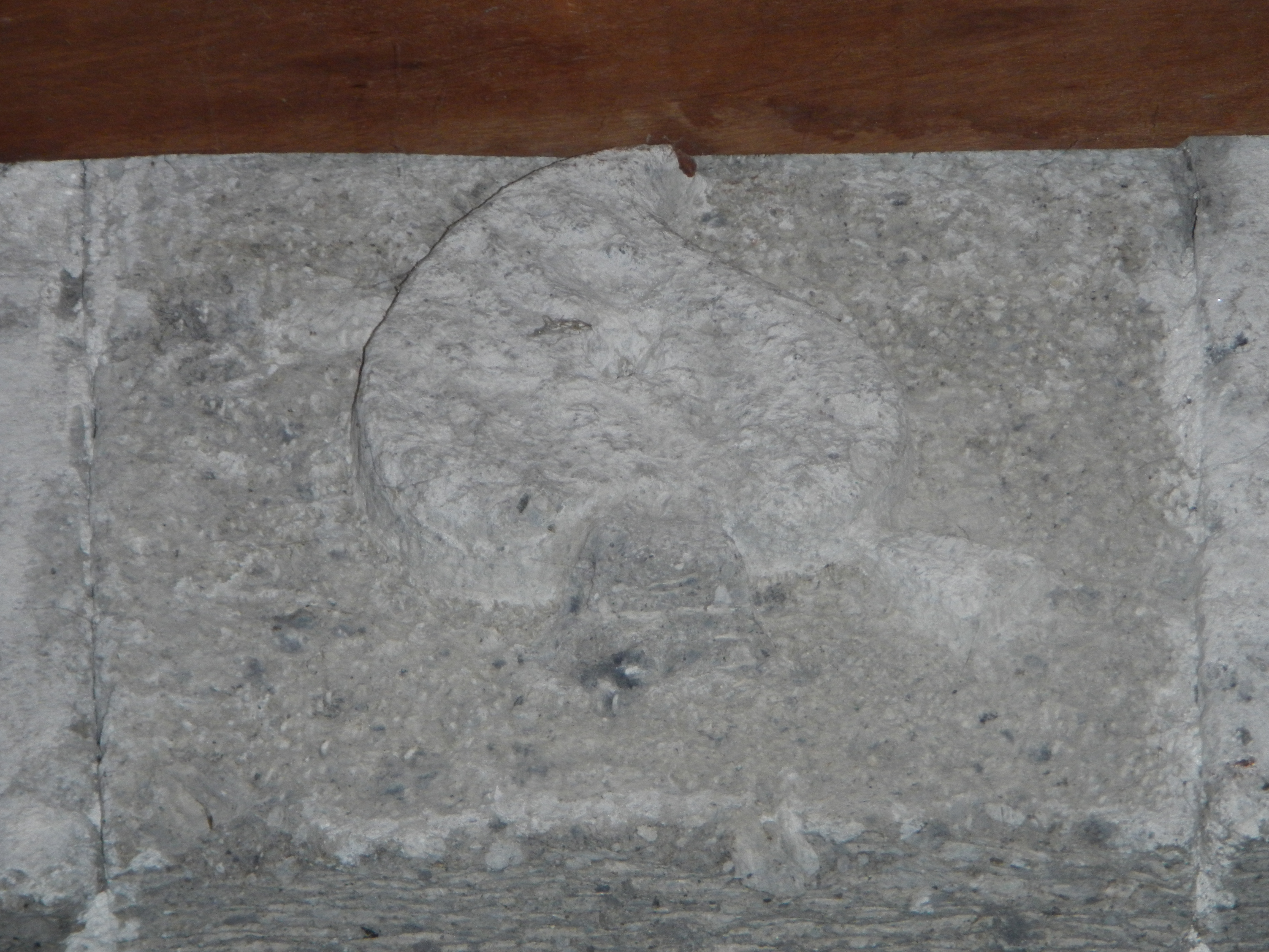 Pierced heart of St. Monica keystone under the choir loft of the Minalin Church, Pampanga, Philippines.